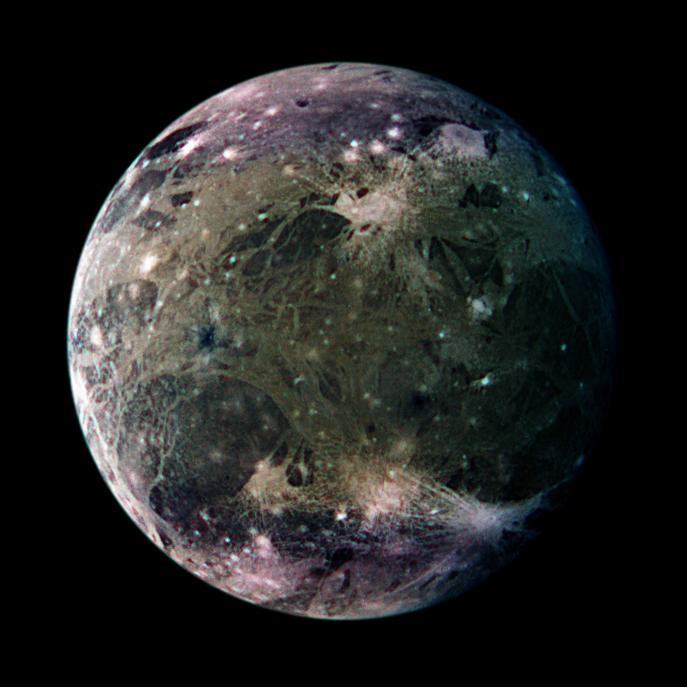 In this global view of Ganymede's trailing side, the colors are enhanced to emphasize color differences. The enhancement reveals frosty polar caps in addition to the two predominant terrains on Ganymede, bright, grooved terrain and older, dark furrowed areas. Many craters with diameters up to several dozen kilometers are visible. The violet hues at the poles may be the result of small particles of frost which would scatter more light at shorter wavelengths (the violet end of the spectrum). Ganymede's magnetic field, which was detected by the magnetometer on NASA's Galileo spacecraft in 1996, may be partly responsible for the appearance of the polar terrain. Compared to Earth's polar caps, Ganymede's polar terrain is relatively vast. The frost on Ganymede reaches latitudes as low as 40 degrees on average and 25 degrees at some locations. For comparison with Earth, Miami, Florida lies at 26 degrees north latitude, and Berlin, Germany is located at 52 degrees north. North is to the top of the picture. The composite, which combines images taken with green, violet, and 1 micrometer filters, is centered at 306 degrees west longitude. The resolution is 9 kilometers (6 miles) per picture element. The images were taken on 29 March 1998 at a range of 918000 kilometers (570,000 miles) by the Solid State Imaging (SSI) system on NASA's Galileo spacecraft.